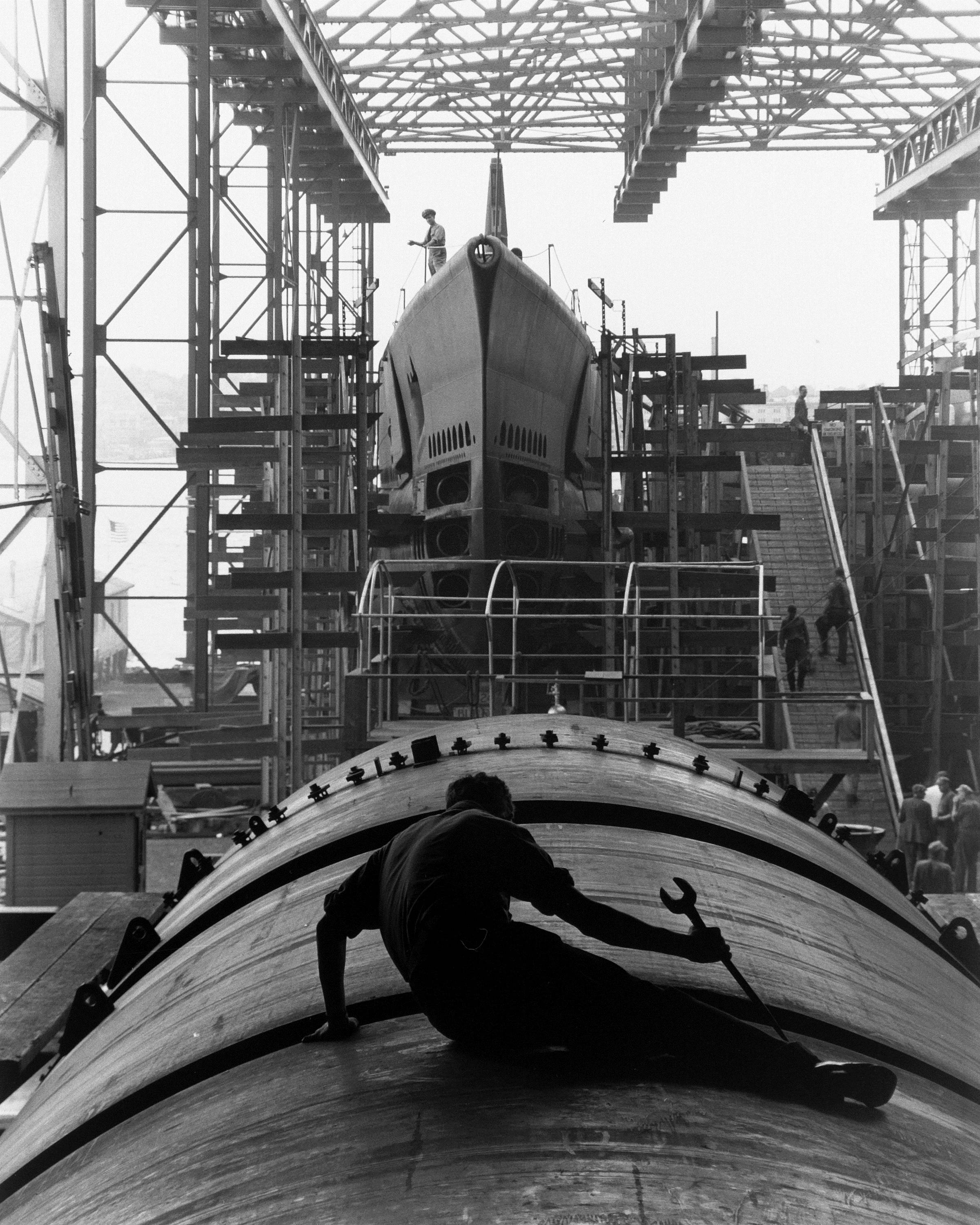 “Man working on hull of U.S. Submarine at Electric Boat Co., Groton, Conn.” By Charles Fenno Jacobs, August 1943 American workers made a staggering contribution to victory during World War II. They built 5,777 merchant ships, 1,556 naval vessels, 299,293 aircraft, 88,410 tanks, 6.5 million rifles, and 40 billion bullets. Average weekly wages rose 65 percent, and manufacturing workers saw their real income jump 27 percent. National Archives, General Records of the U.S. Navy, 1789–1947 (80-G-468517)